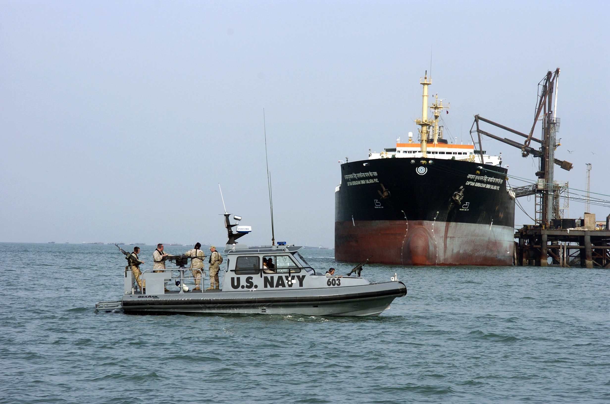 PERSIAN GULF (Feb. 15, 2008) Sailors assigned to Inshore Boat Unit (IBU) 22 wait for permission to come along side and dock their security patrol boat on Khawr Al Amaya Oil Terminal. IBU 21 & 22 are conducting security sweeps and visit, board, search and seizure operations in the northern Persian Gulf from the Royal Fleet Auxiliary dock landing ship RFA Cardigan Bay (L 3009). U.S. Navy photo by Mass Communication Specialist 2nd Class Kirk Worley (Released)